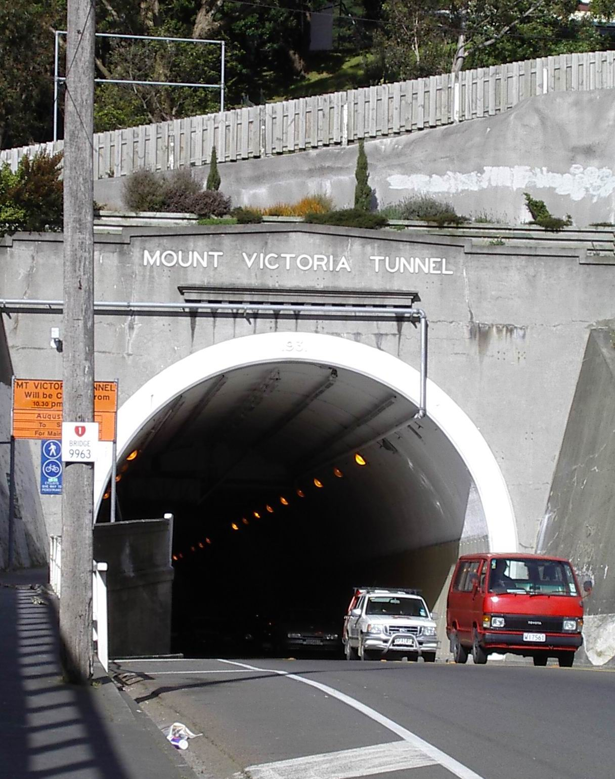 This is a self made photo of the Mount Victoria entrance to the Mount Victoria Tunnel.